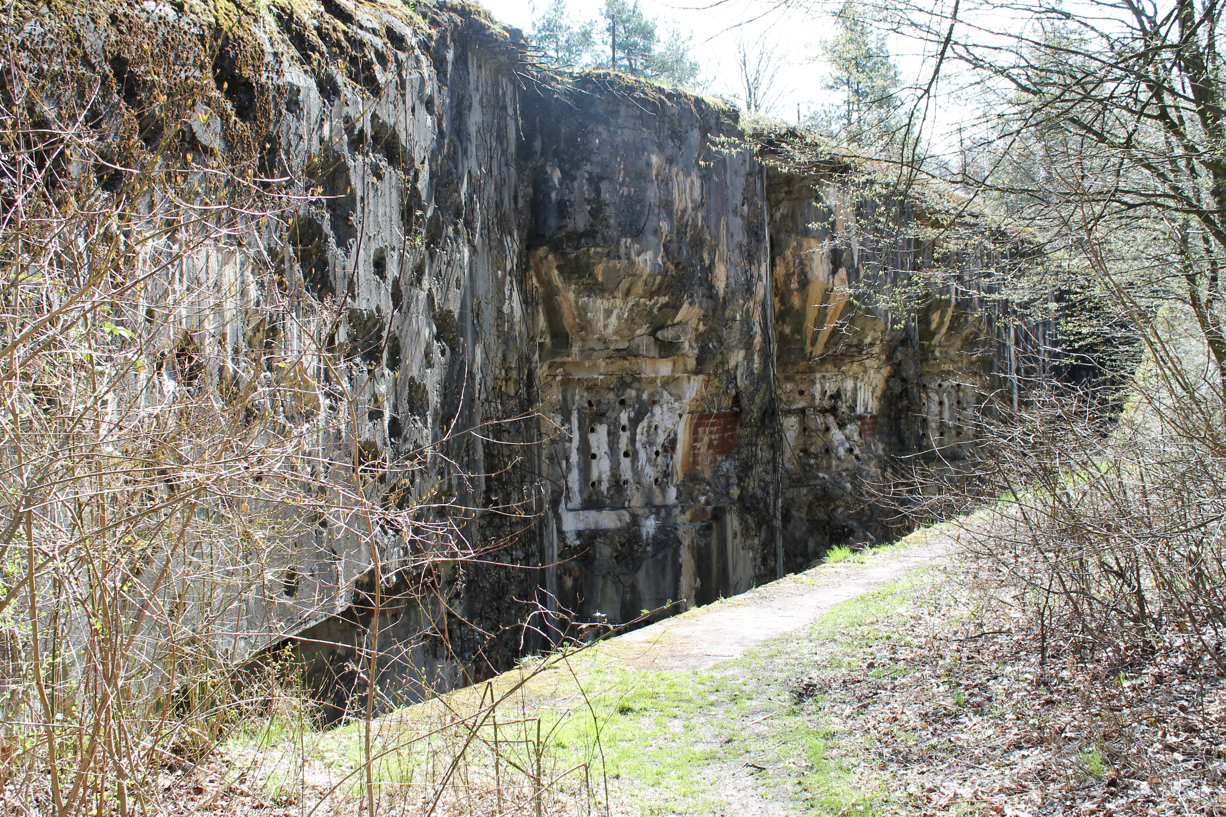 MO-Sm-S 39 U trigonometru artillery casemate, Smolkov, Háj ve Slezsku, Opava District